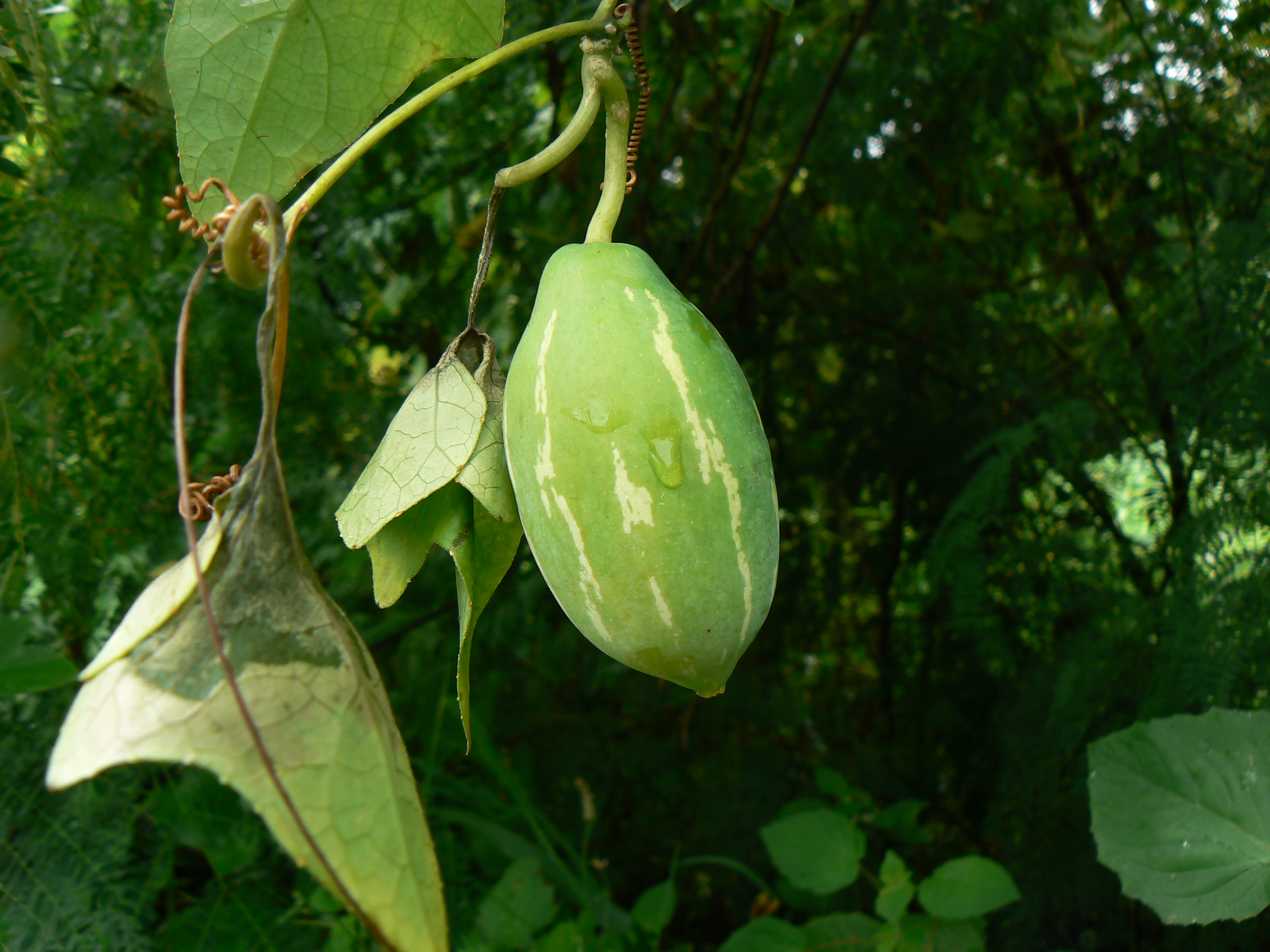 Cucurbitaceae (pumpkin, or gourd family) » Coccinia grandis kok-SIN-ee-uh -- meaning, red; often spelled coccinea GRAN-dees or GRAN-dis -- meaning, large or spectacular commonly known as: ivy gourd • Hindi: कुन्द्रू kunduru • Konkani: तेंडलें tendale • Malayalam: kova • Marathi: तेंडली tendali or तोंडली tondli • Tamil: கோவை kovai • Telugu: bimbika, donda Origin: Africa, Asia and Australia ... the fruit eaten in Indian cuisine ... known as tindora (tindori, tindoori), giloda, kundri, tindla, gentleman's toes (compare lady's fingers), thainli or ivy gourd ... tropical vine grown for its small edible fruits ... they may be eaten immature and green, or mature and deep red ... the young shoots and leaves may also be eaten as greens. References: Flowers of India • TopTropicals • Wikipedia • Dave's Garden • M.M.P.N.D. Blogged at: Slice of the Day by Vasant M. Salian